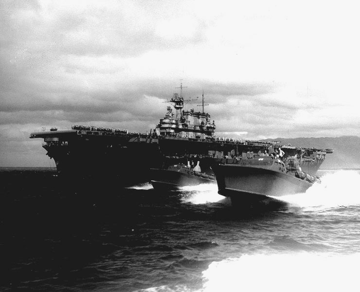 The U.S. Navy aircraft carrier USS Hornet (CV-8) off Pearl Harbor after the Doolittle Raid on Japan, 30 April 1942. PT-28 and PT-29 are speeding by in the foreground. Hornet returned from Doolittle raid on 25 April. On 30 April she departed to the South Pacific together with USS Enterprise (CV-6).